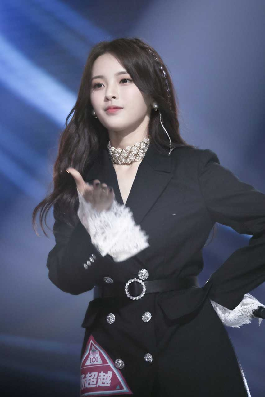 Yang Chaoyue in Produce 101 China final, performing the song . Photo taken from the crowd.